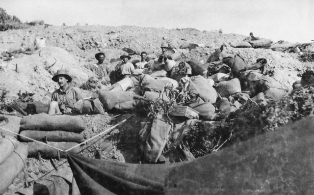 Troopers from the Australian 10th Light Horse Regiment after the Battle of the Nek, c. 7-8 August 1915